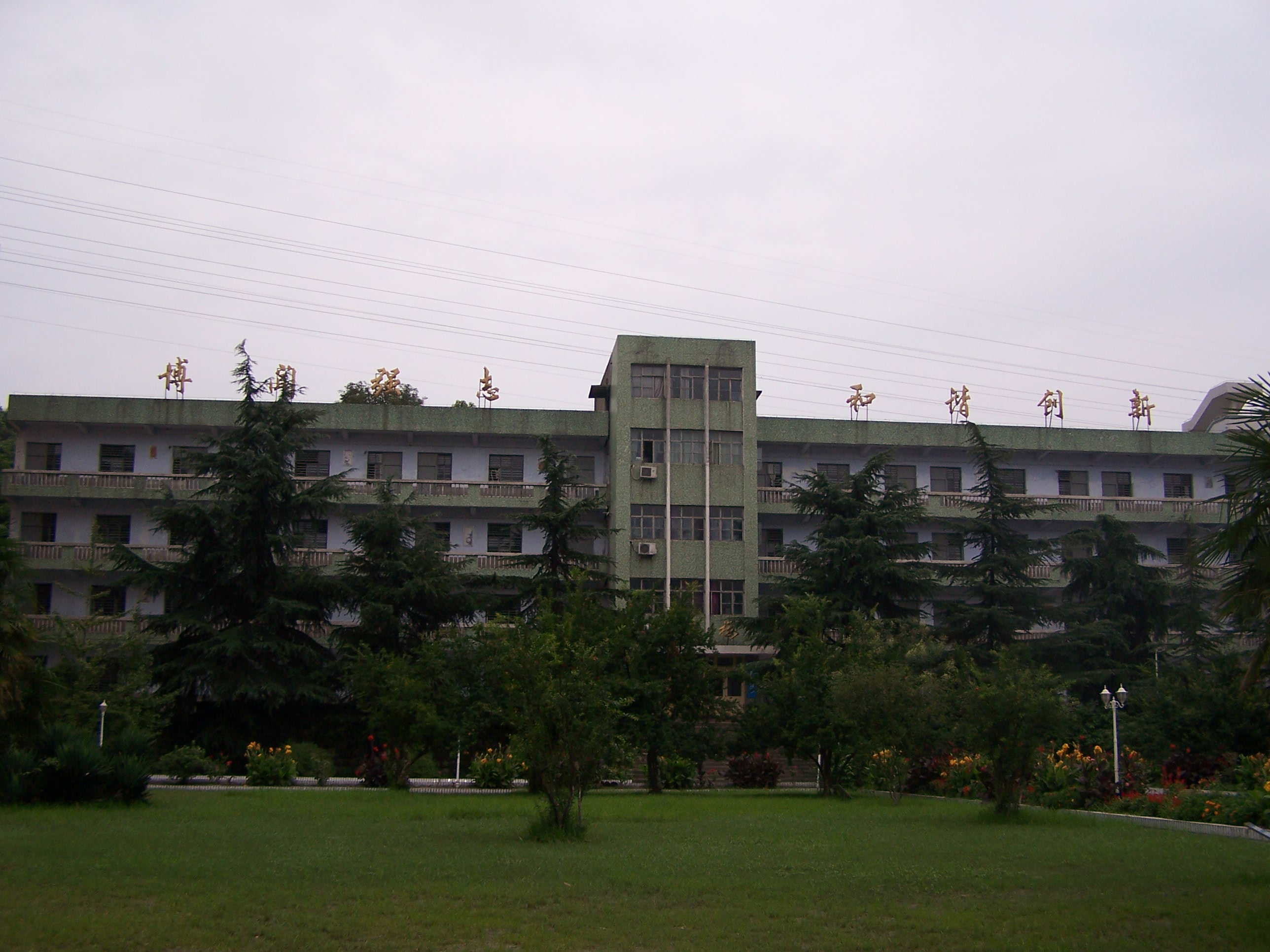 Mianyang High School, Tonghui Building